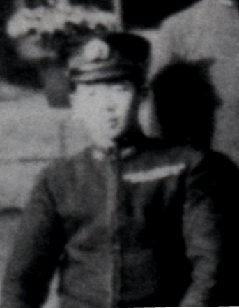 Hanabusa Hiroshi is an Imperial Japanese Navy Captain